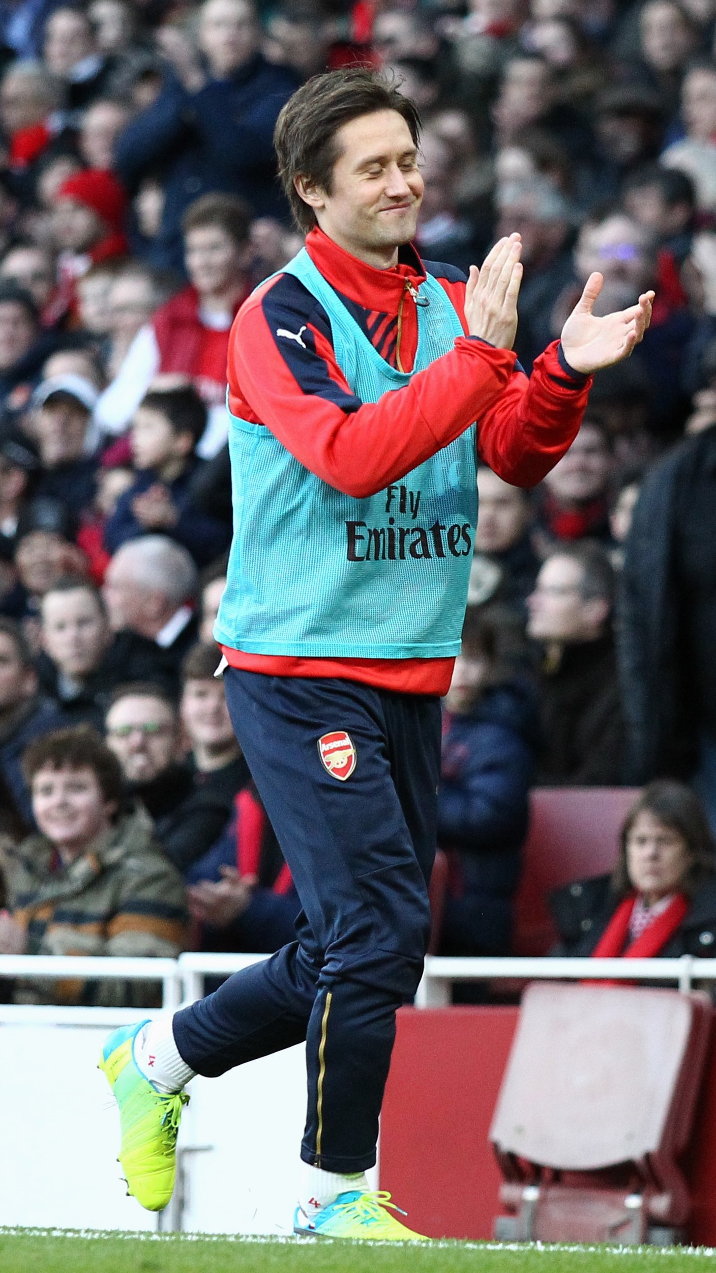 Tomas Rosicky of Arsenal warms up during the game against Burnley.